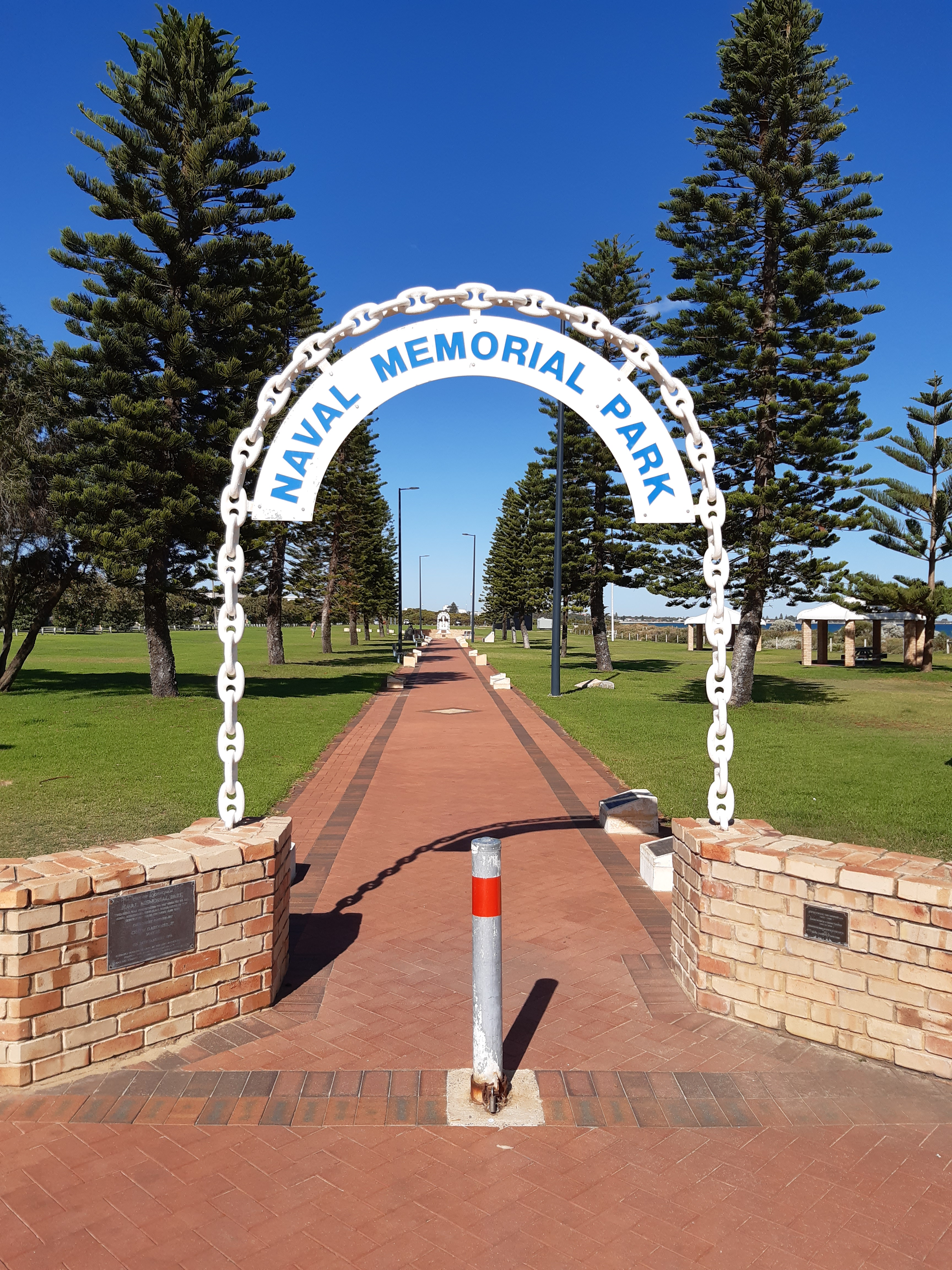 Rockingham Naval Memorial Park entrance arch, Western Australia. Note the growth of the trees when comparing File:Rockingham Naval Park Entrance Arch.jpg, taken ten years earlier.